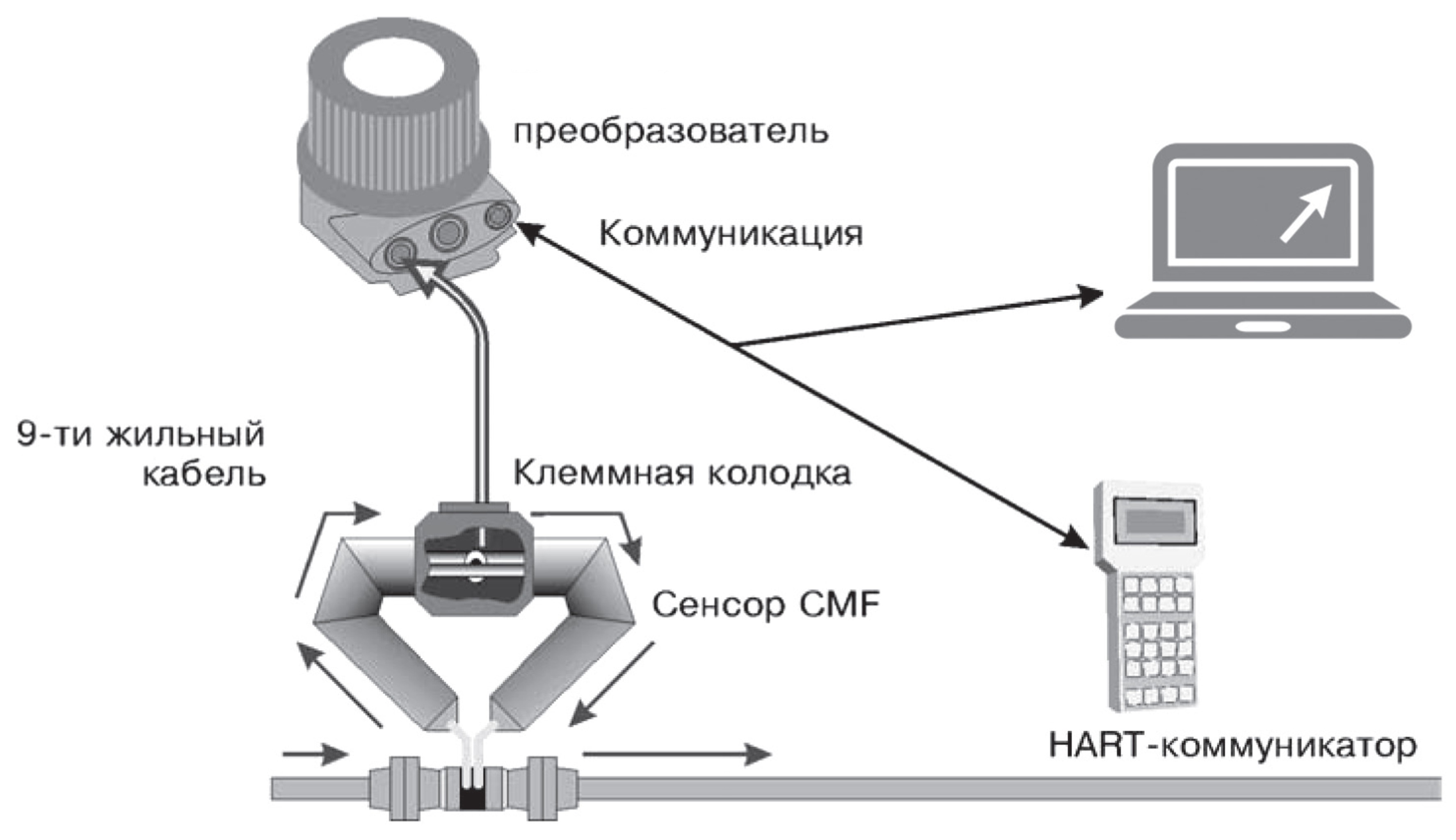 Схема работы кориолисова расходомера